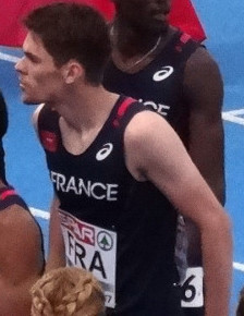 2017 European Athletics U23 Championships, 4x400m relay men final